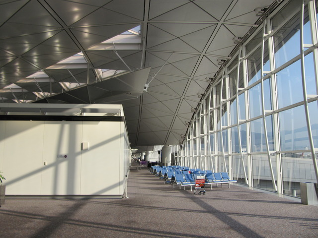 Hong Kong International Airport Departures Level 6 boarding gate area